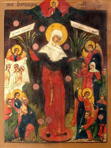 The Icon of the Mother of God "The Consolation of All the Afflicted with Coins"